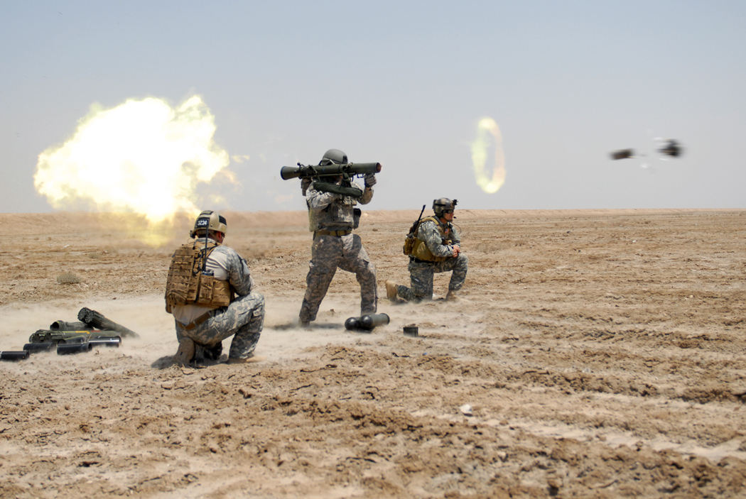 As a U.S. Special Forces Soldier counts down, his fellow Soldier with Special Operations Task Force - Central fires a Carl Gustav Recoilless Rifle during a training exercise conducted in Basrah, Iraq, May 2, 2009.